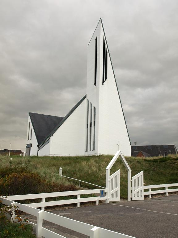 Hörnum (Sylt), Slesvic-Holstein (Germany): church, photo 2008